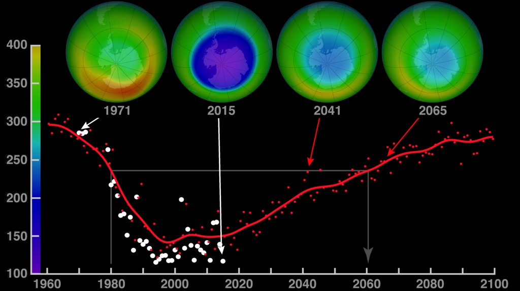 Ozone hole recovery projection, 1960-2100.